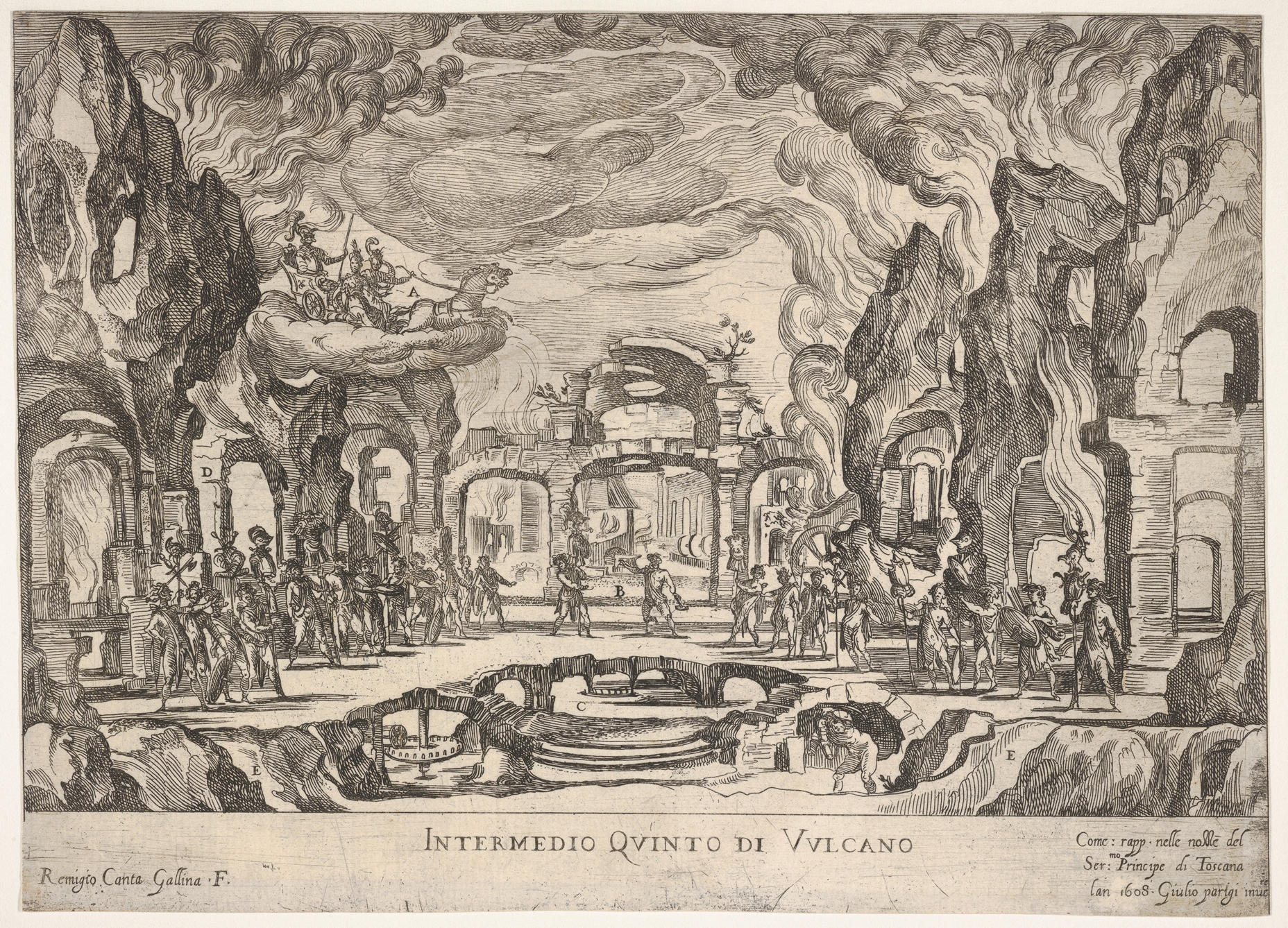 Print Ornament & Architecture; Prints